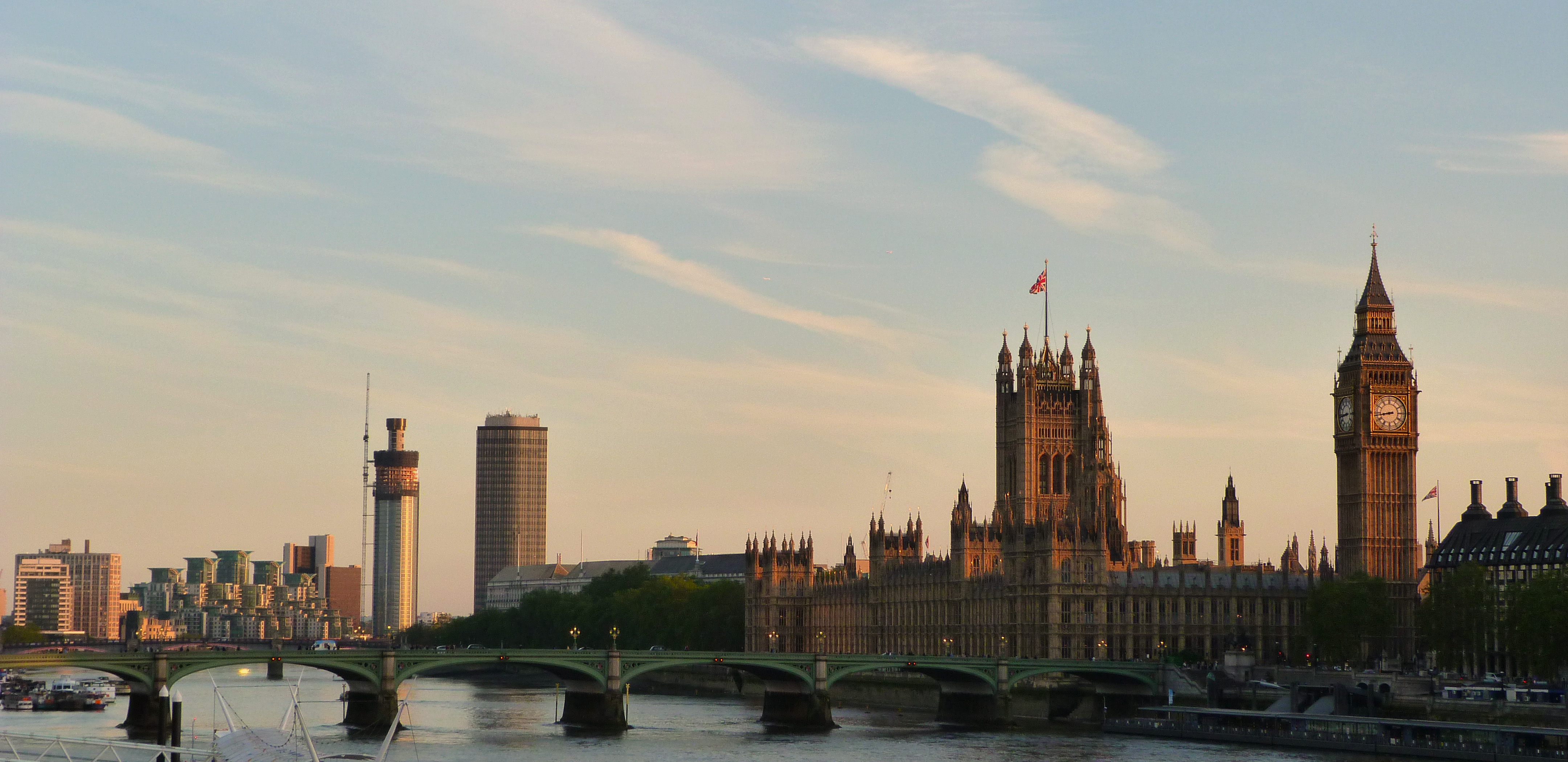 London Westminster